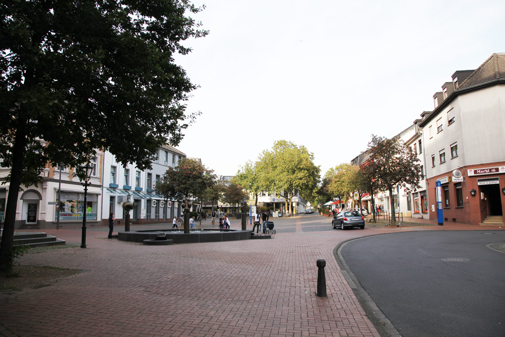 Marketplace of Dülken, Germany